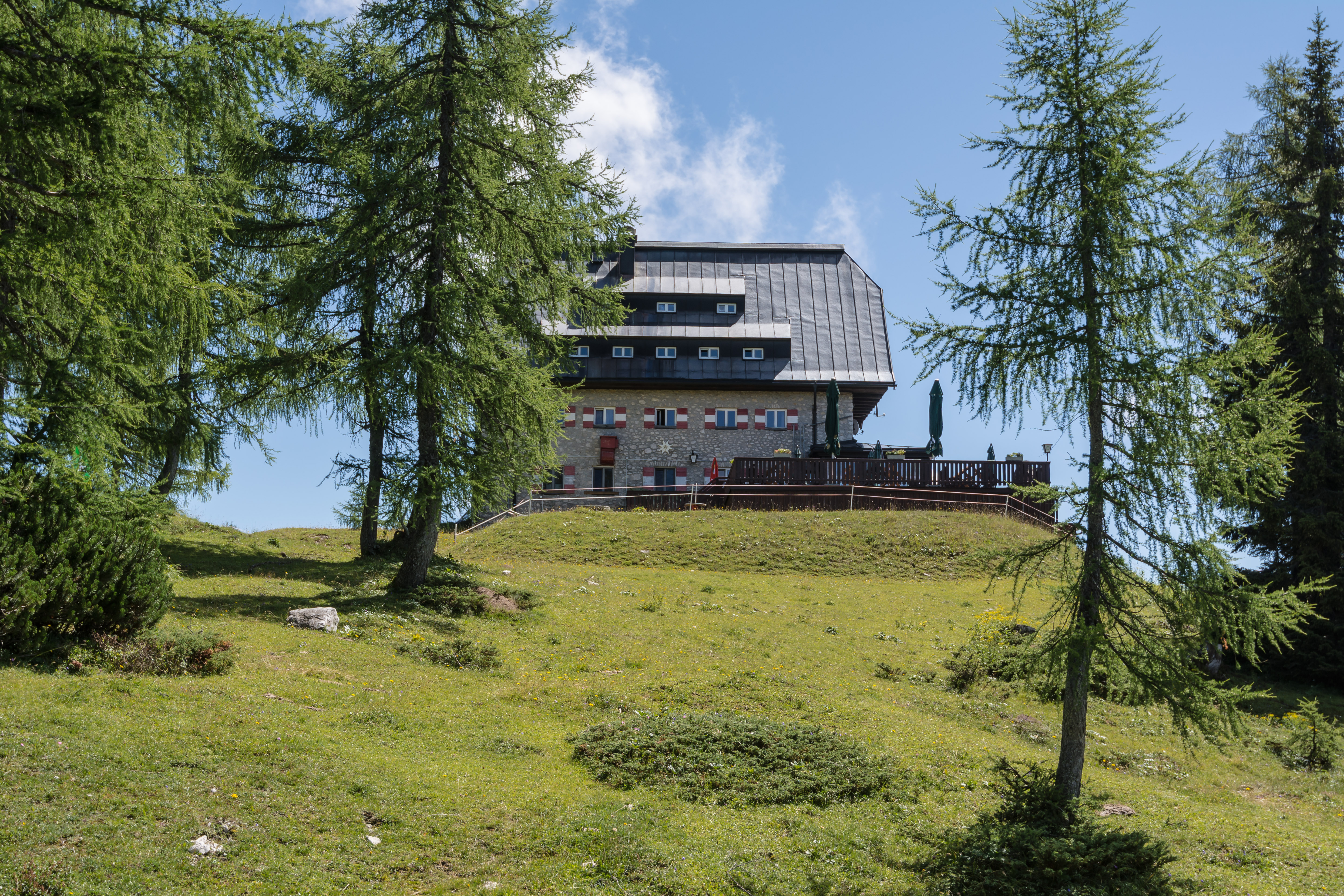 The alpine hut Linzer Tauplitz-Haus at the alpine pasture Tauplitzalm in Styria / Austria was erected in 1953/54.